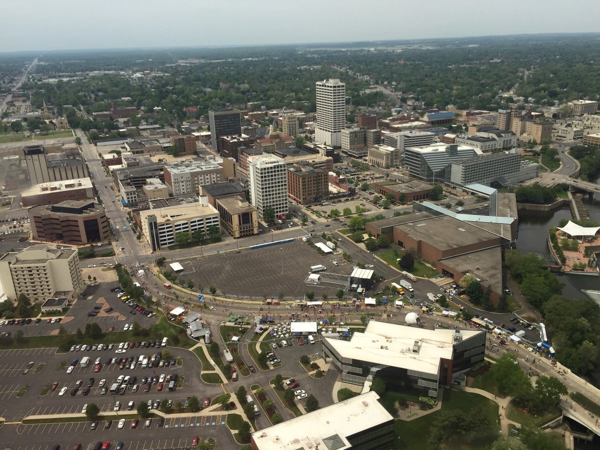 An Aerial photo of Downtown South Bend from above the river. Things in view include the tower, the key bank building, the County/City building, Century Center, Double Tree Hotel, AT&T building, and the west race of the river. You can see the people on Jefferson Street enjoying the South Bend 150th Anniversary Weekend festivities.